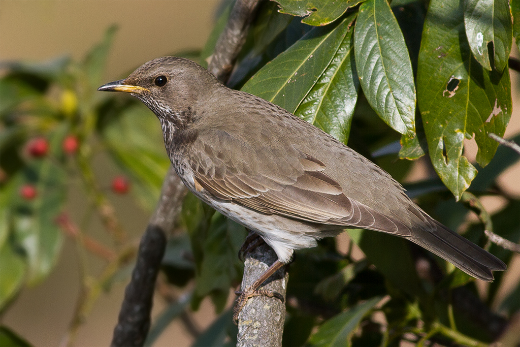 Birds of Himalayas